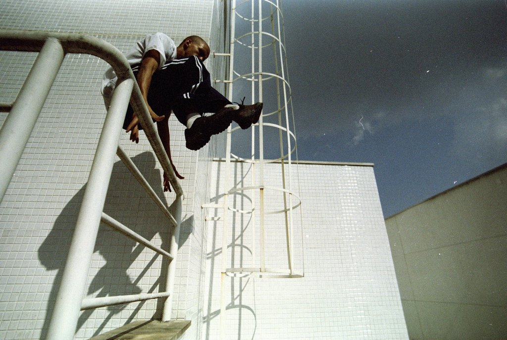 Free running in Brazil